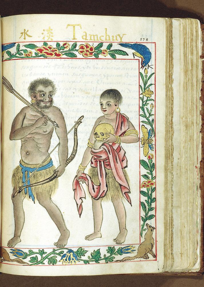 "淡水 Tamchuy" - Taiwanese Aboriginal Couple from Tamsui, Taiwan - Boxer Codex (1590) Observed by the Colonial Spanish Authorities in Manila, Philippines around 1590 AD